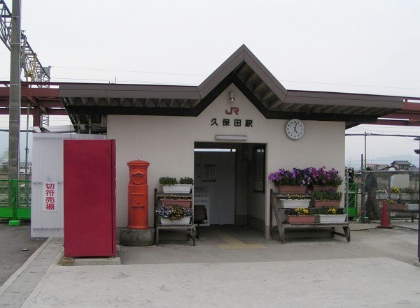 Kubota Station in Saga Prefecture, Japan